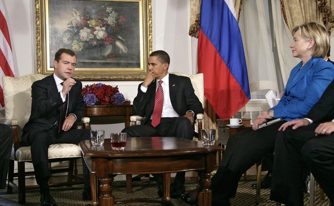 NEW YORK. With American President Barack Obama.